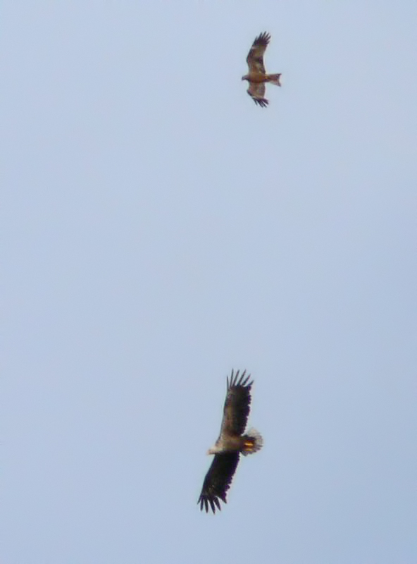 A white-tailed eagle being mobbed by a Red kite. Author: Wojsyl